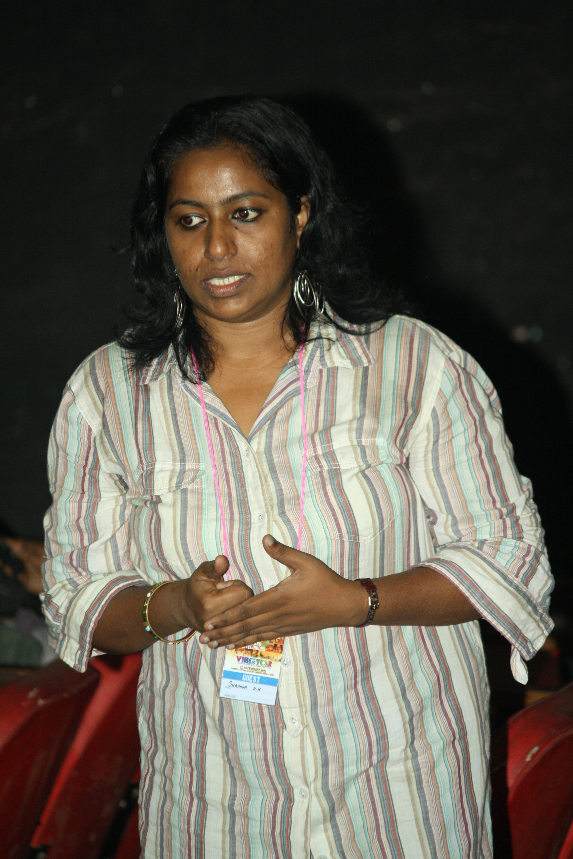 ViBGYOR International film festival 2012, Day 1